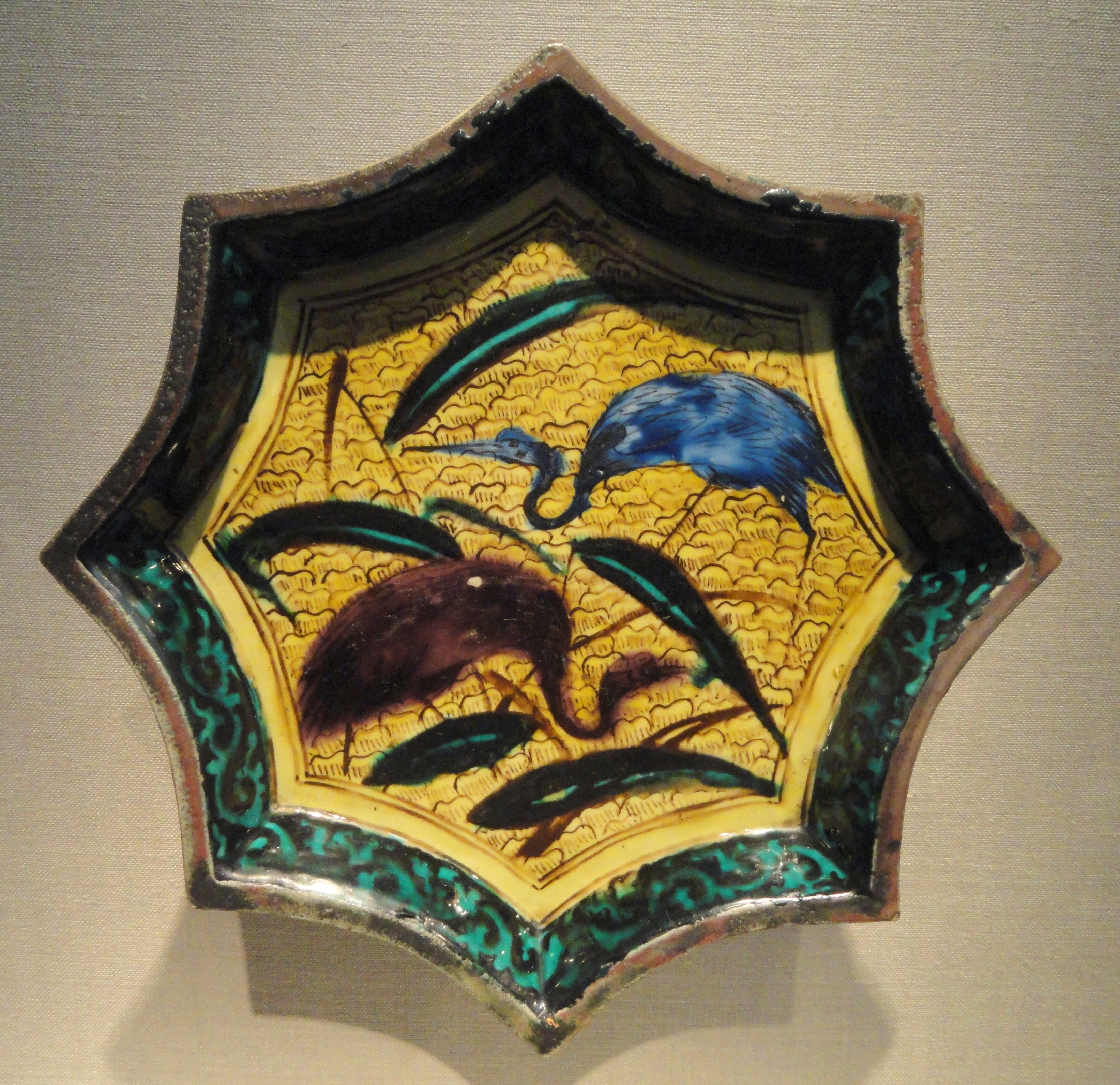 Bowl with design of crane and chrysanthemums, stoneware with white slip, iron, cobalt, possibly by Ogata Kenzan. Kyoto, Japan, Edo period, early 18th century. Exhibit in the Freer Gallery of Art, Washington, DC, USA. This artwork is old enough so that it is in the public domain.